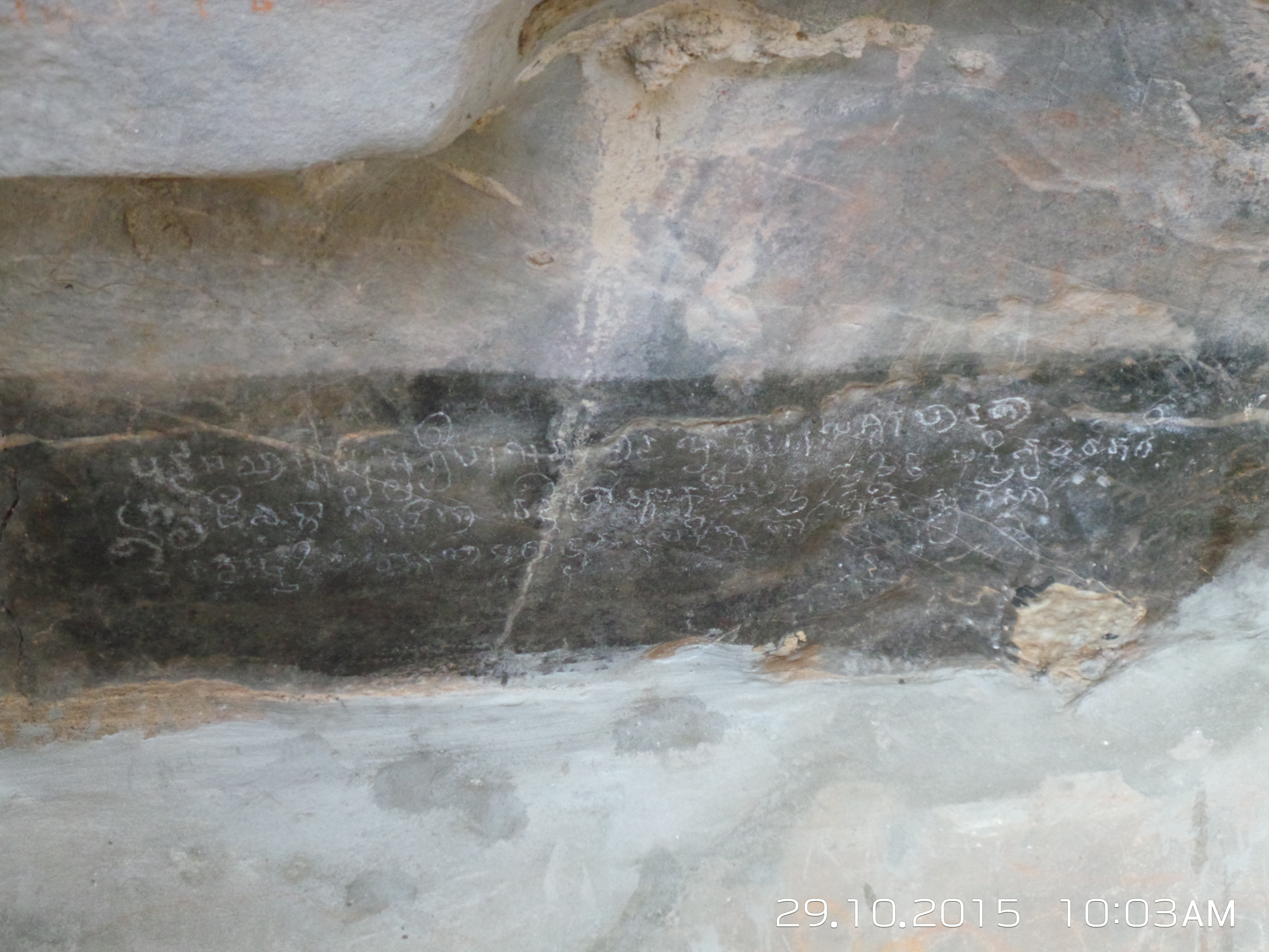 Historical Kawgun (Kawgoon) Cave is a natural limestone cave with clay Buddha images and terracotta votive tablets in its interior walls located in Hpa-An, Karen State, Myanmar. There can be seen the carved statues, sandstone Buddha statues, the mural paintings and the ink and carved Mon inscriptions. မြန်မာဘာသာ: သမိုင်းဝင် ကော့ဂွန်းဂူသည် သဘာဝထုံးကျောက်လိုဏ်ဂူများအတွင်း၌ ဗုဒ္ဓဘာသာဆိုင်ရာကိုးကွယ်မှု အမွေအနှစ်များနှင့် ယဉ်ကျေးမှုအမွေအနှစ်များ ကျန်ရှိနေမှုအများဆုံးနေရာတစ်ခုဖြစ်ပြီး ကရင်ပြည်နယ် ဖားအံမြို့အနီးတွင်တည်ရှိသည်။